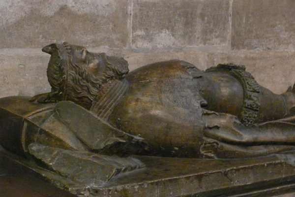 Ottokar II Premysl